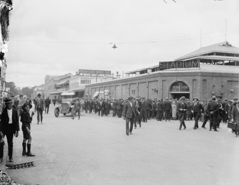 People milling around the entrance of the Brisbane Stadium, Brisbane, ca. 1925 The Stadium was the home of boxing contests in Brisbane.